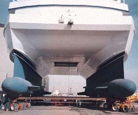 The bottom of the hull of the NOAA research vessel Western Flyer, showing its moon pool.